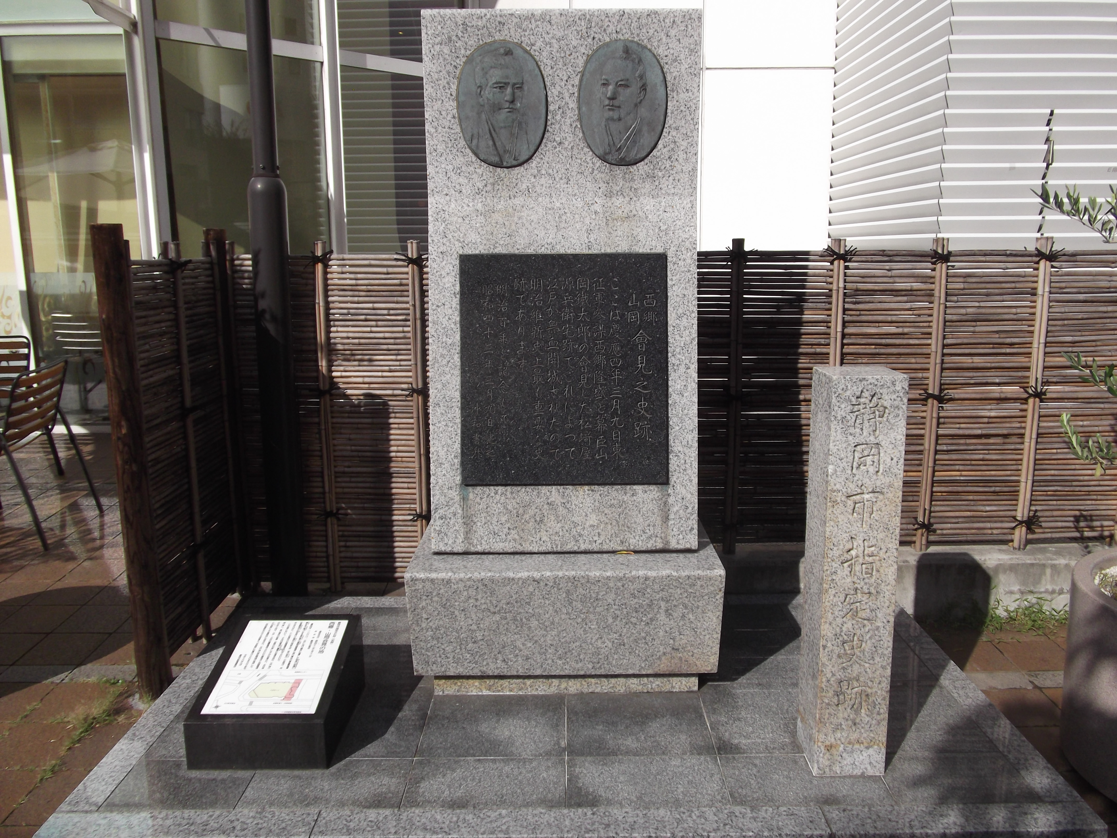 Site of the Meeting between Saigō Takamori and Yamaoka Tesshū in Shizuoka-shi.